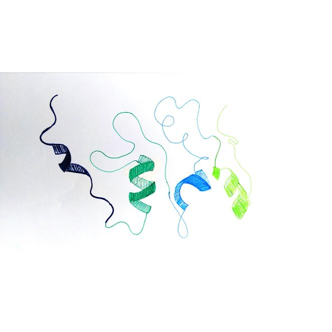 cIAP1 (also named BIRC2) is the abbreviation for a human protein, cellular inhibitor of apoptosis protein-1. It belongs to the IAP family of proteins and therefore contains at least BIR (baculoviral IAP repeat) domain.